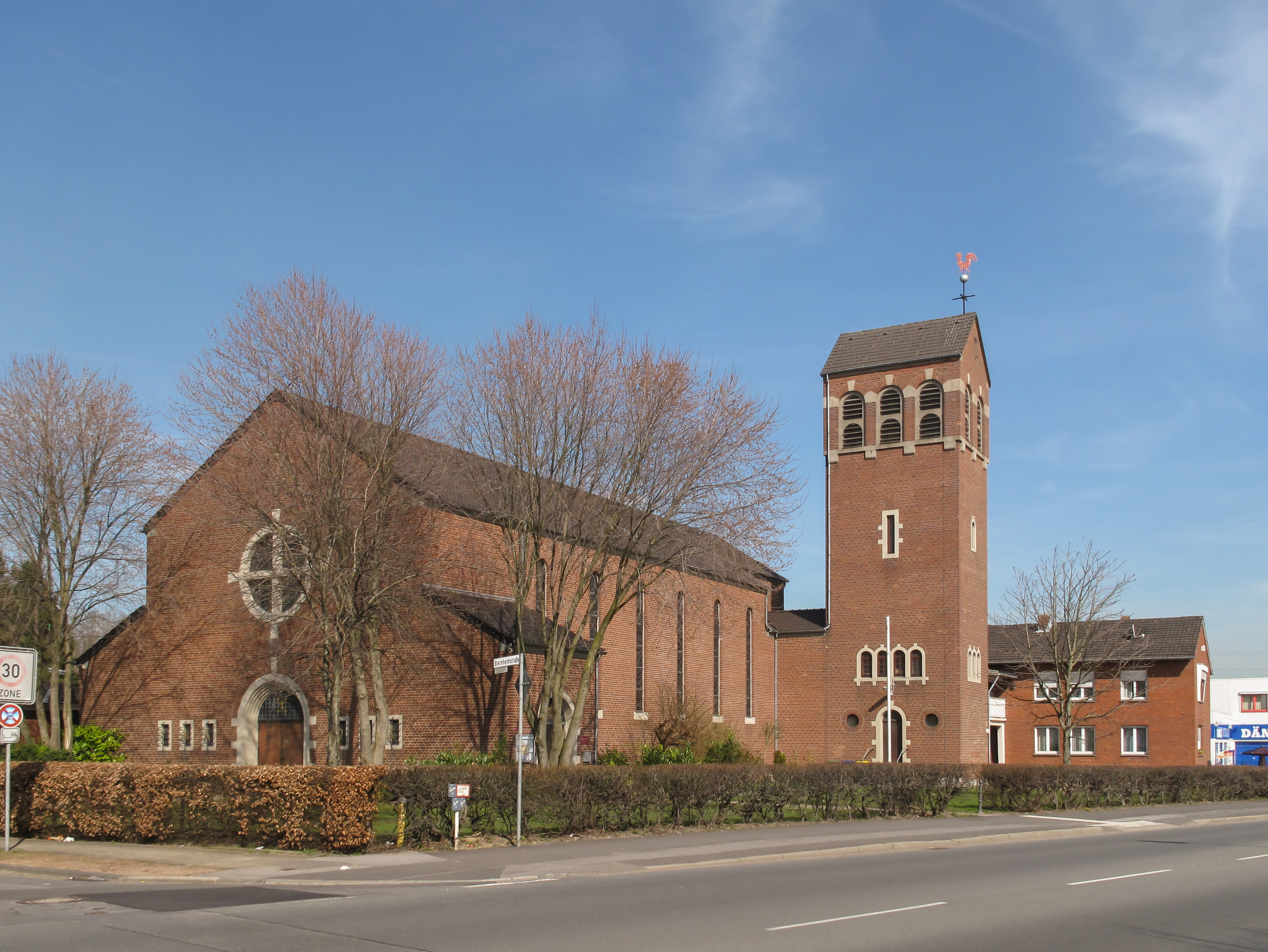 Eschweiler, church